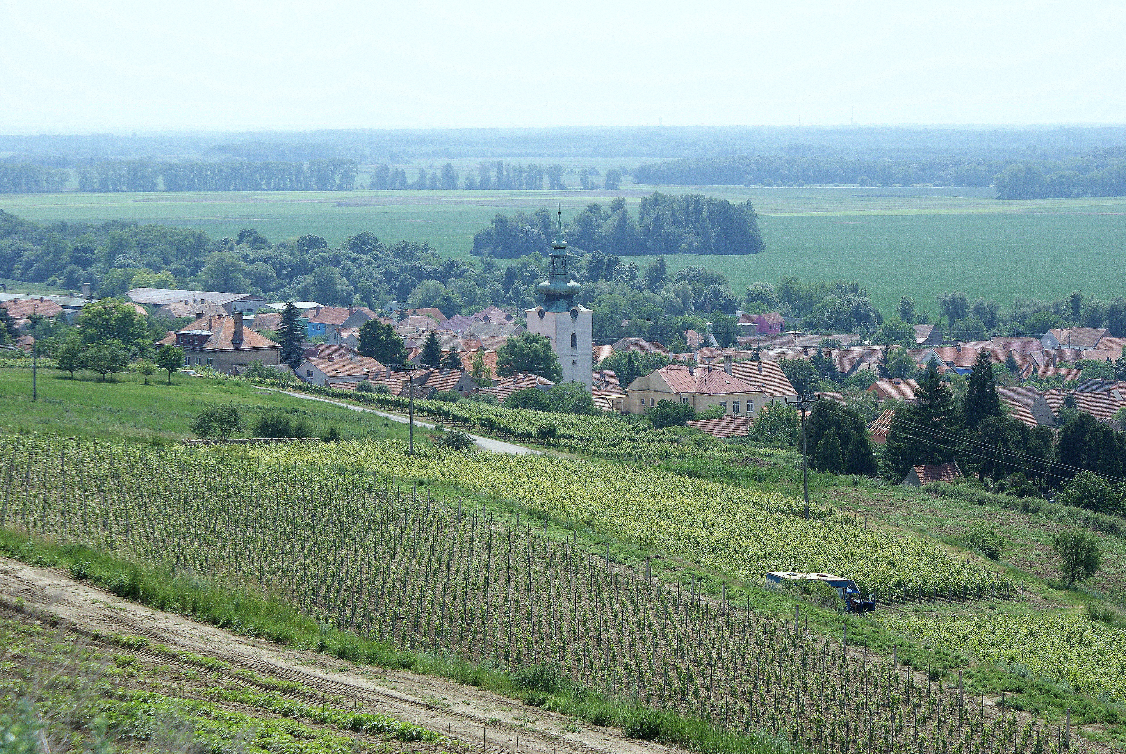 Přítluky, a village in Břeclav District, Czech Republic, distant view.